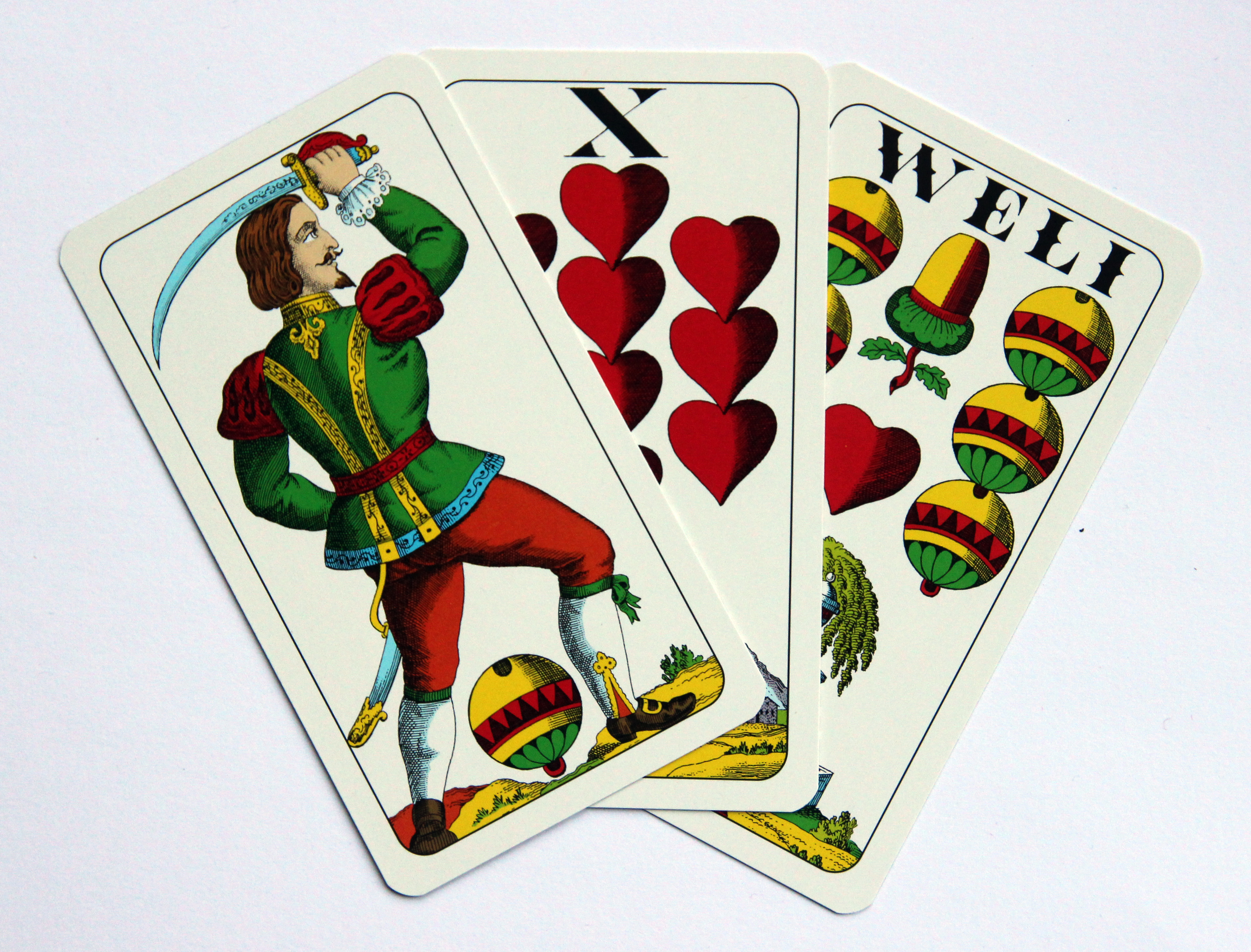 The permanent top trumps in the traditional Austrian card game of Jaggln (Salzburg pattern cards). The original card design emerged around 1850 (source: PATTERN SHEET 56 by the International Playing Card Society, 13 Sep 2010).